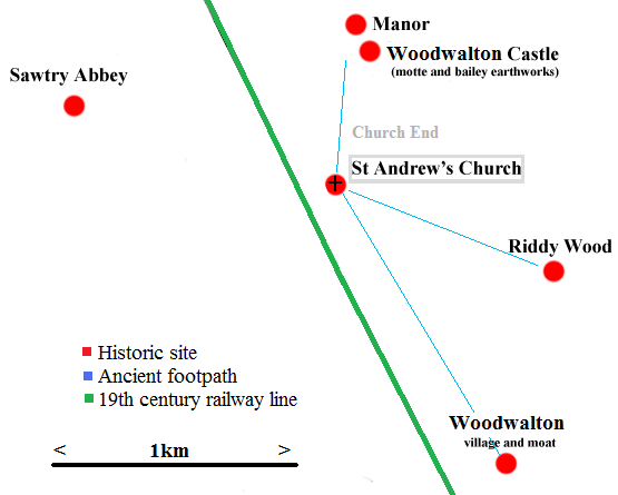 Very rough map to demonstrate the reason for the isolated position of St Andrew's Church, Woodwalton - note the church is in a central position when seen in respect of the castle, manor, abbey and village.